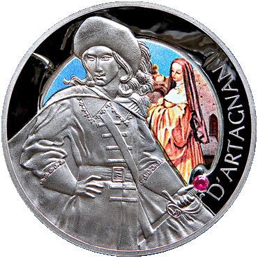 Belarus and the global community. Commemorative coins "D'Artagnan"